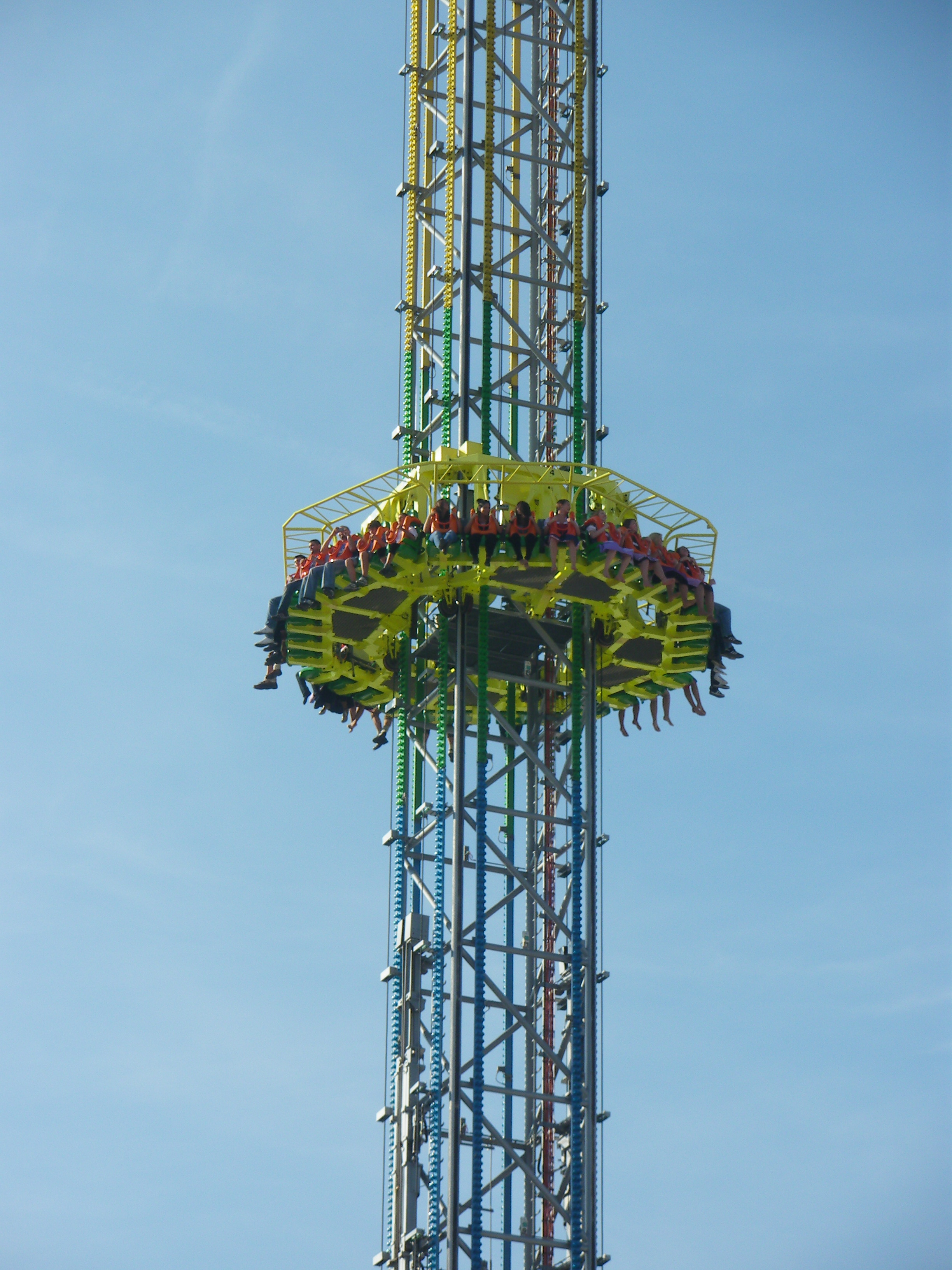 Power Tower 2, Oktoberfest 2011